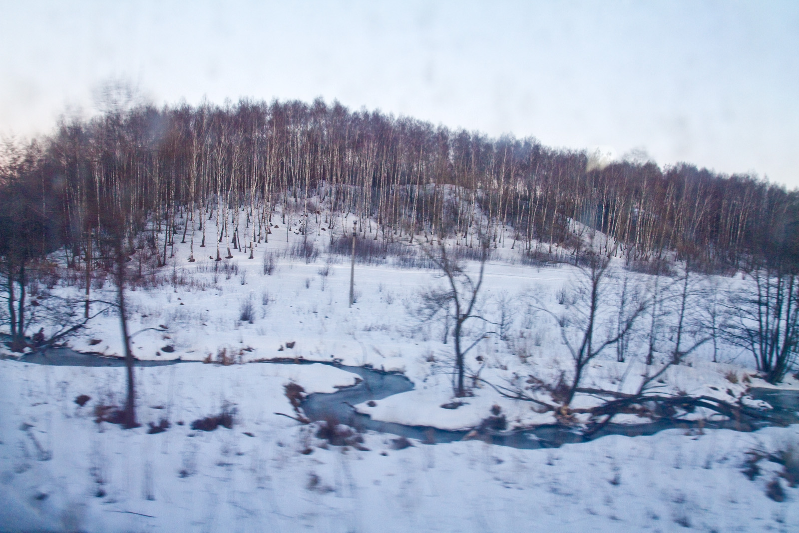 Vuša river. Maładečna district, Belarus.